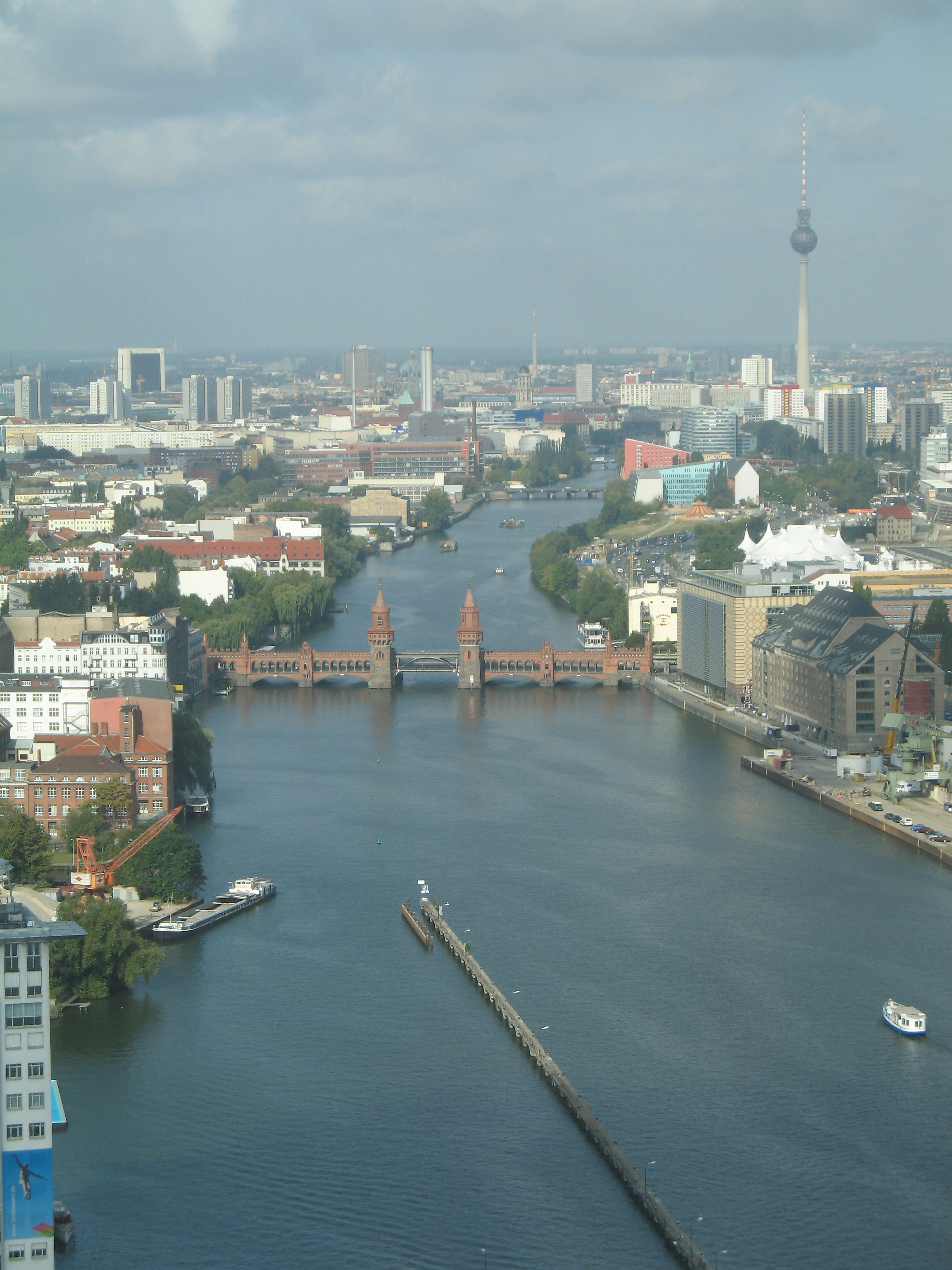 Oberbaum bridge over Spree river at the Osthafen of Berlin, Germany